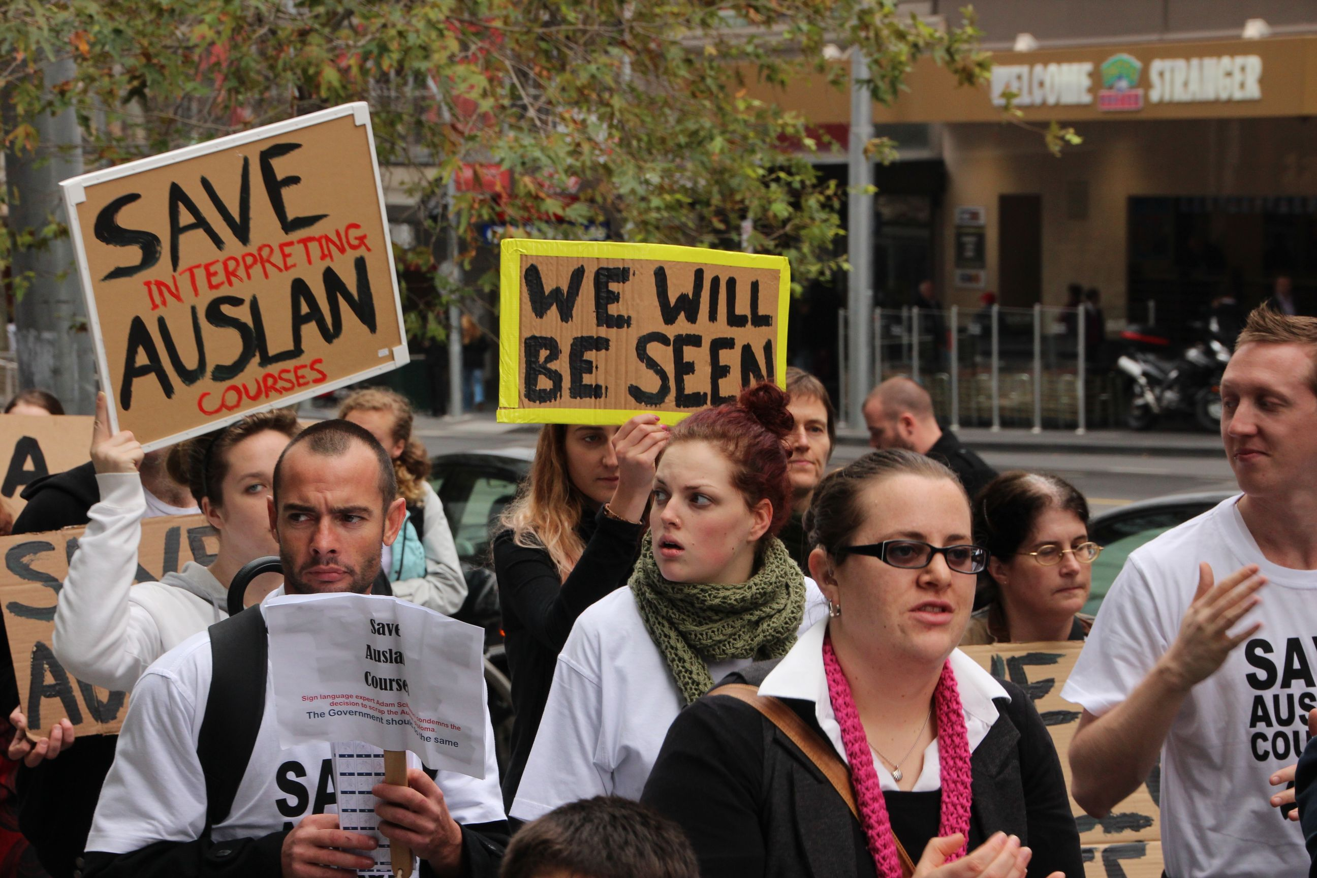 Save Auslan (the Australian sign language) campaign protesters in Melbourne